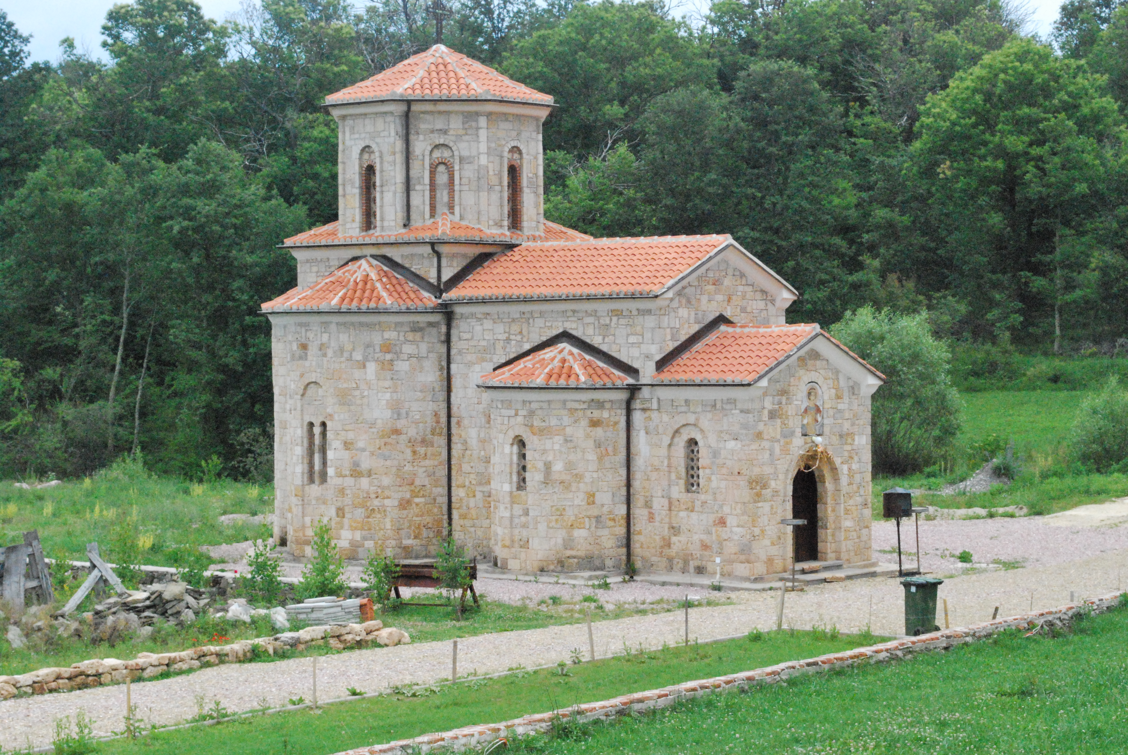 St. George's Church. The main church in Knežino Monastery, Macedonia